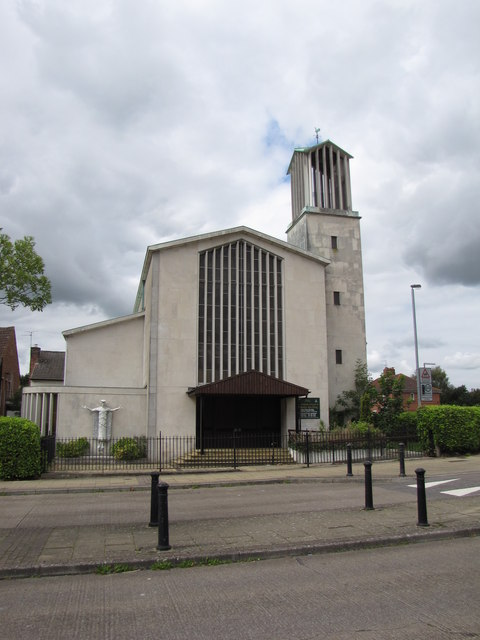 Roman Catholic church of Christ the King, Filwood Park, Bristol, seen from the east from Filwood Broadway